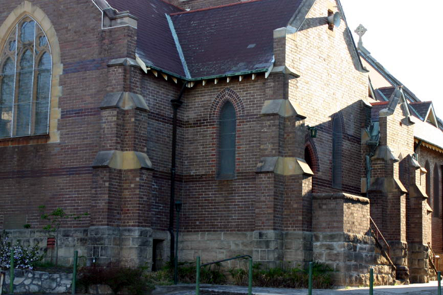 St Albans Anglican Church, 171-173 Great North Road, Five Dock, NSW, Australia. Photograph taken by Alex Wolfson, 18/09/2005